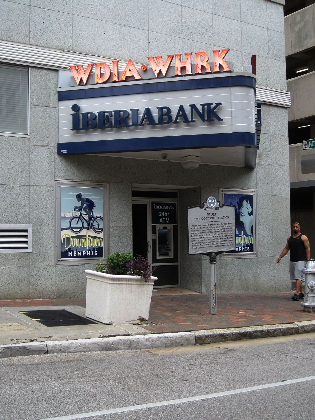 Memphis, Tennessee. WDIA WHRK building